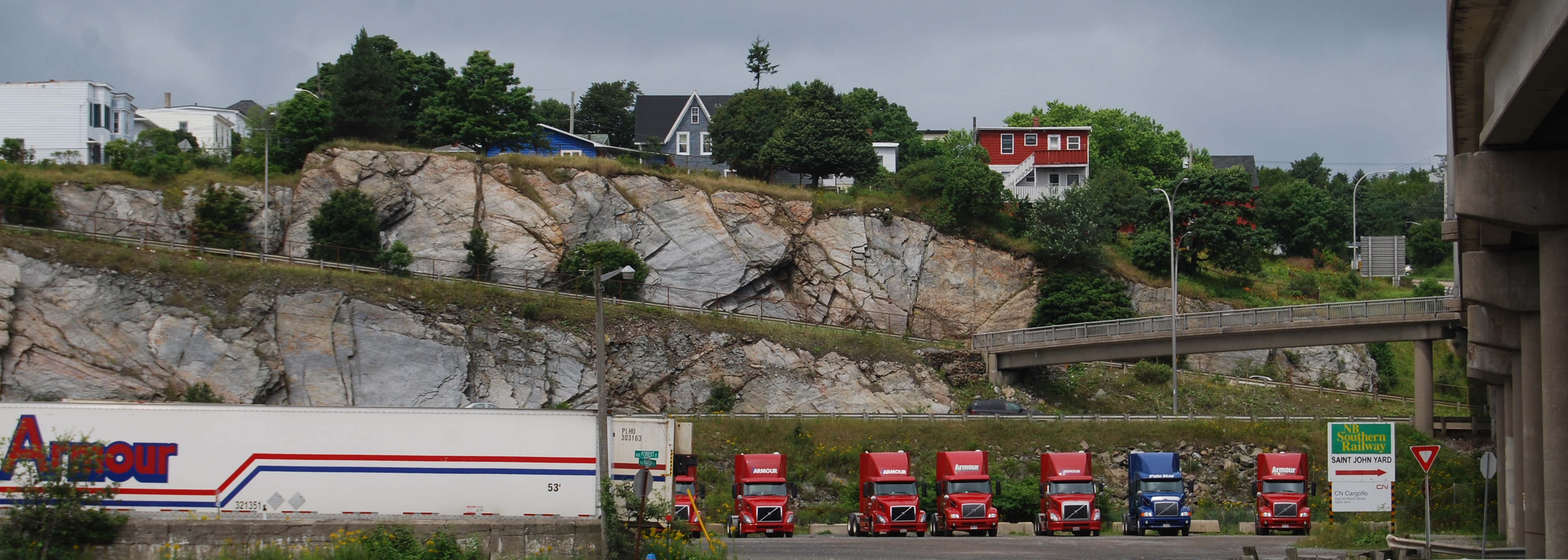 I, Myke Waddy took this photo, Saint John, New Brunswick Canada